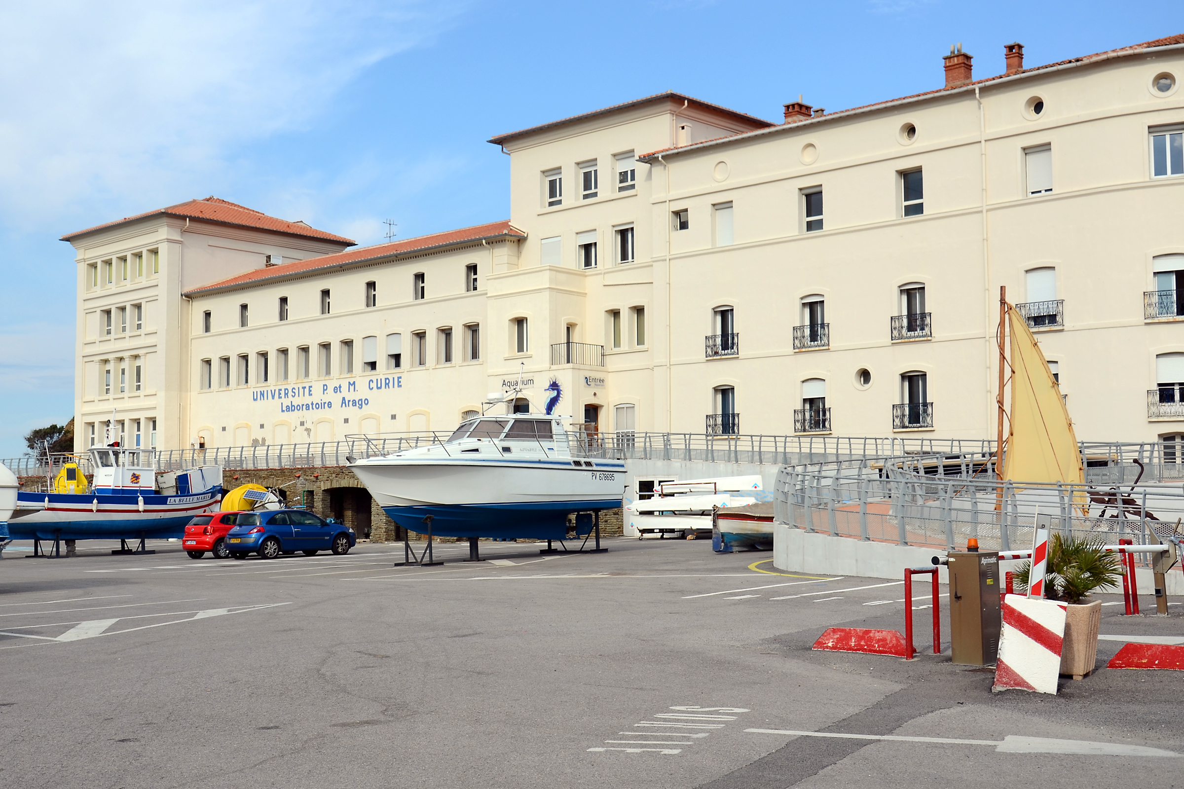 Banyuls-sur-Mer (France)